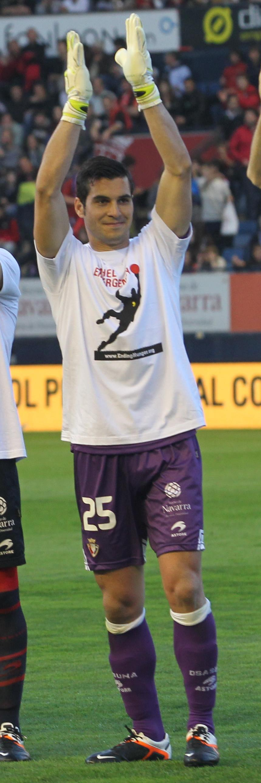 Players of Osasuna